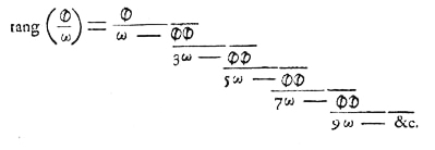 Scan of Lambert's continued fraction, from "Mémoire sur quelques propriétés remarquables des quantités transcendentes [sic], circulaires et logarithmiques" (1761, printed in 1768)